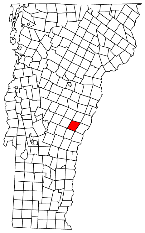 Map of Vermont towns with Sharon highlighted